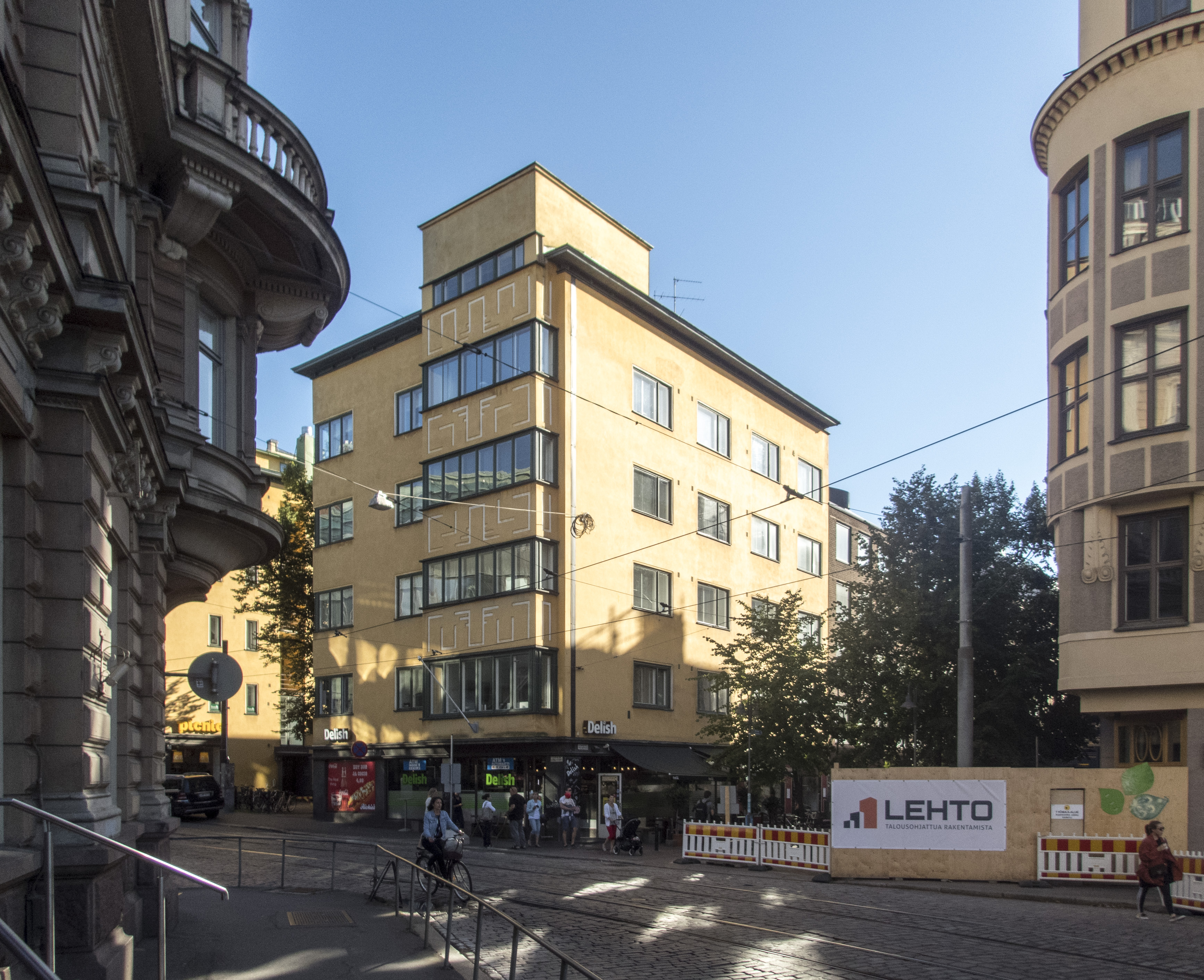 Yrjönkatu 4 - Iso Roobertinkatu 2, Helsinki, Built in 1938. Architect Ole Gripenberg